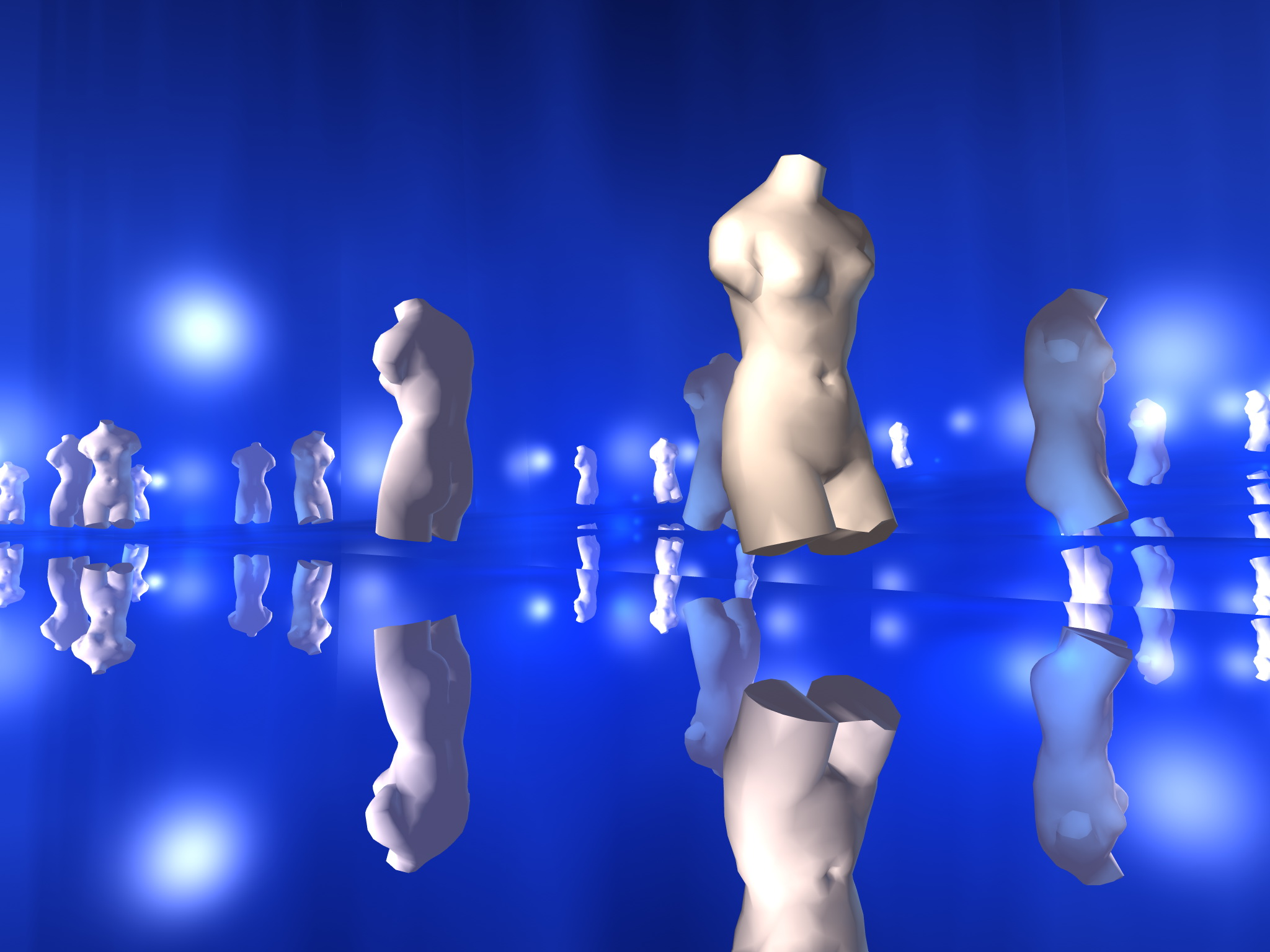 Statue of Venus (Aphrodite) in mirrors. Venus (mythology), the Roman goddess of love, in Greek mythology known as Aphrodite. Large, with aspect ratio of 4:3